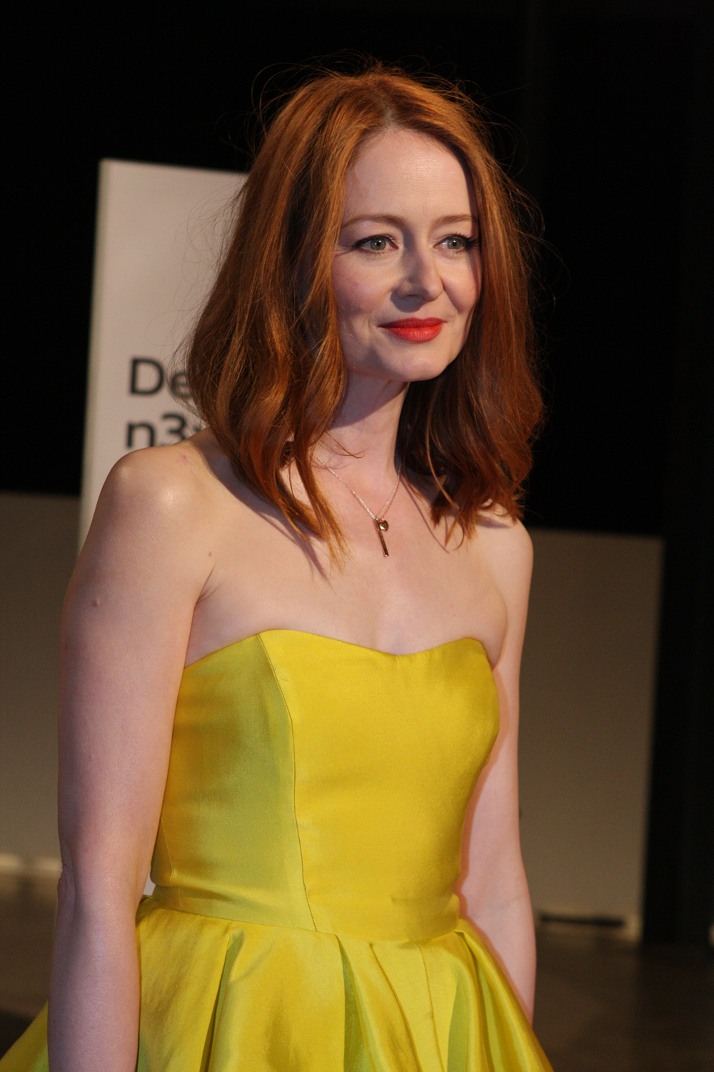 Miranda Otto at InStyle Women Of Style Awards: Red Carpet Awards Evening